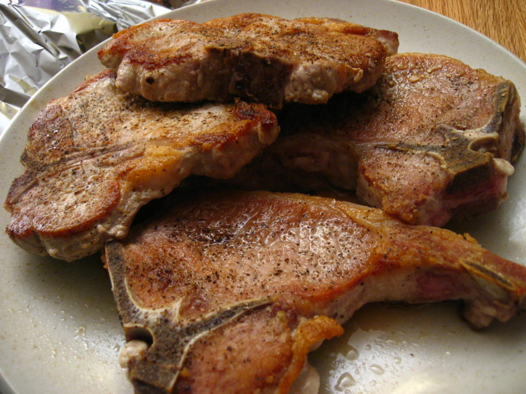 pork chops (homecooked) - delicious!